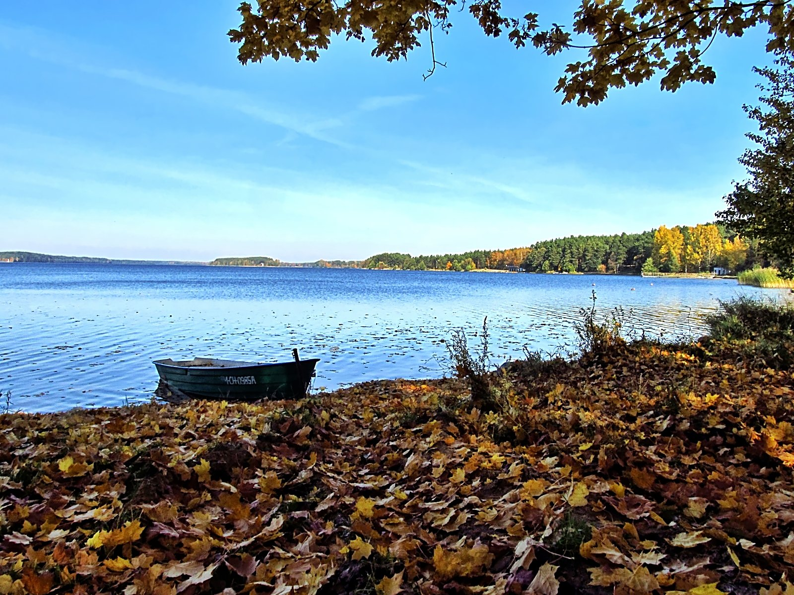 Autumn on Wdzydzami